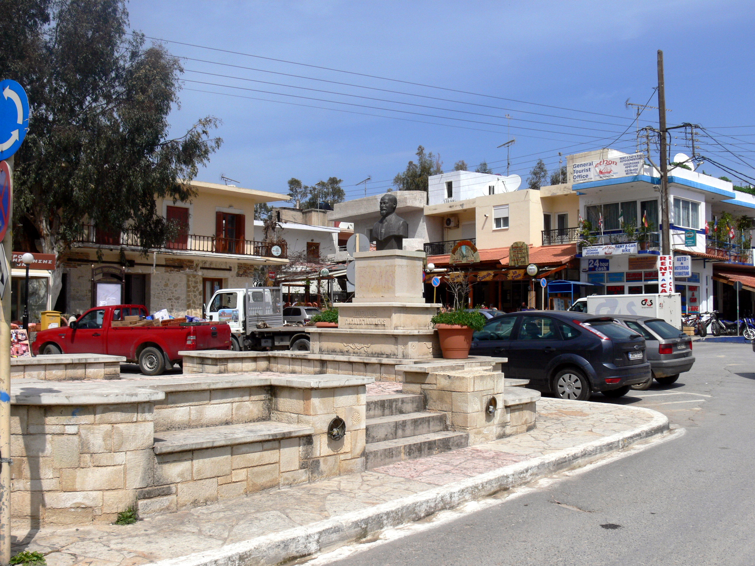 Georgiupolis ( Crete ). Main square.